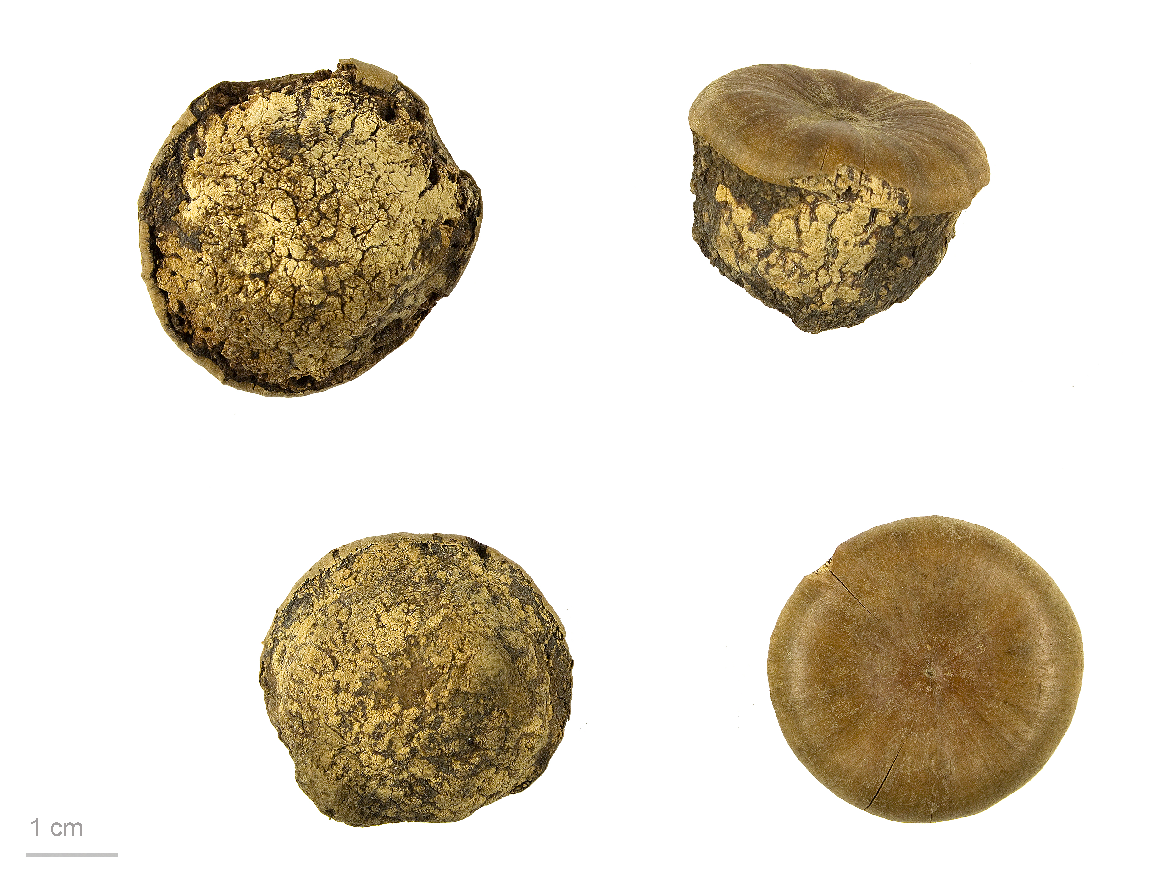 Lithocarpus sp. , fruits and seeds